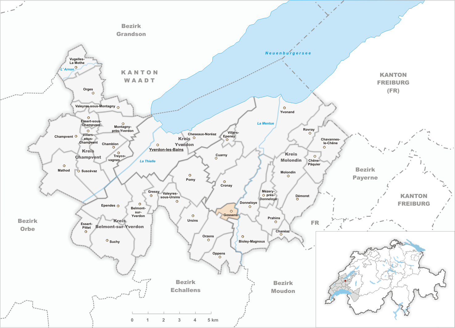 Municipality Gossens